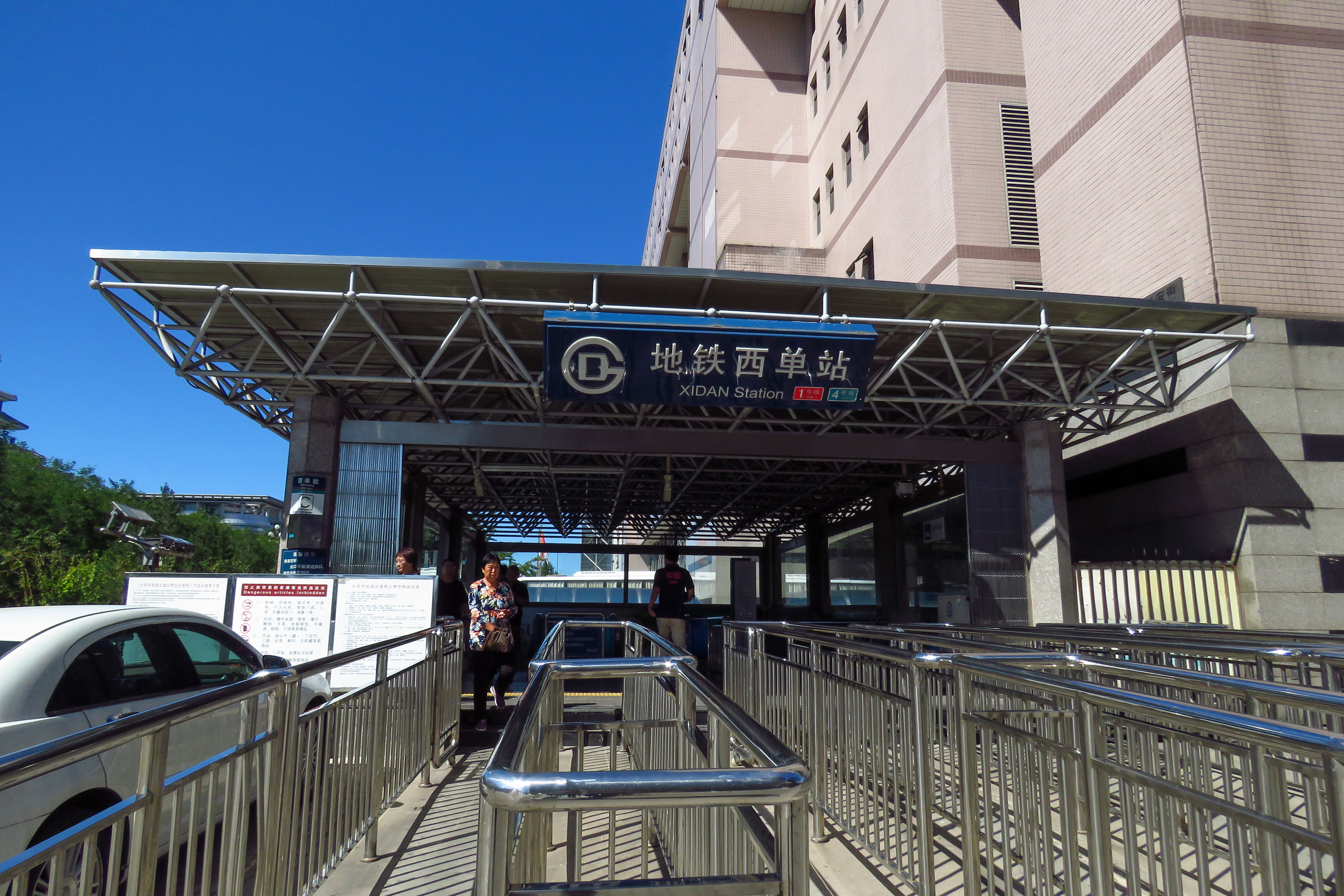 The sign was still in old pattern.